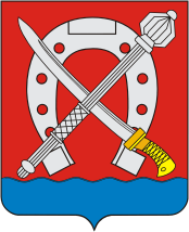 Kavkazskoe (Krasnodar krai), coat of arms